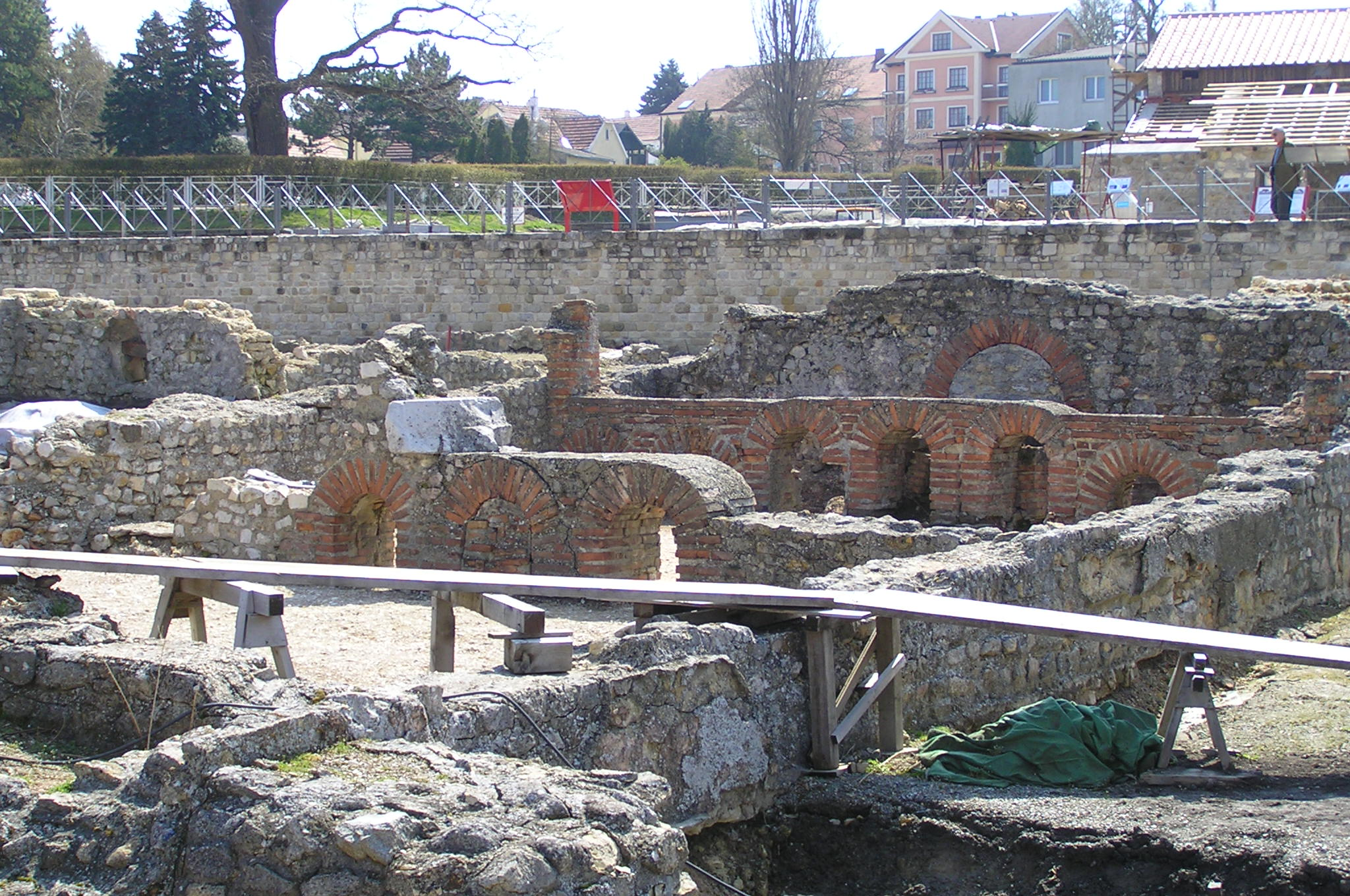 The ruins of a Roman public bath. Open-air museum, Petronell The thermae have been reconstructed since. --wg (talk) 22:13, 30 April 2011 (UTC)